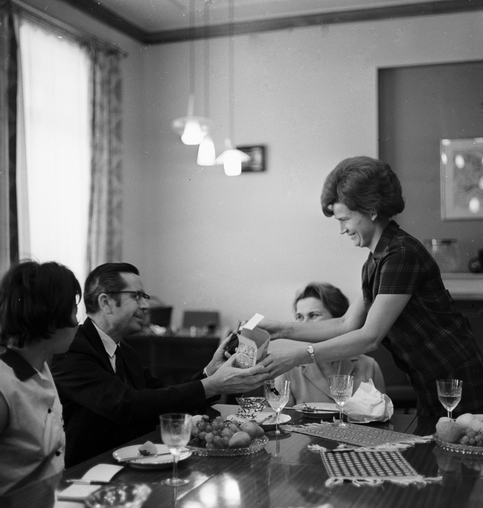 “Valentina Tereshkova giving present to Mr. Camp”. Chairman of the Soviet Women's Committee, USSR space pilot, Valentina Tereshkova, right, giving present to Mr. Camp, husband of Catherine Camp, President of American section of the International League for Peace and Democracy.